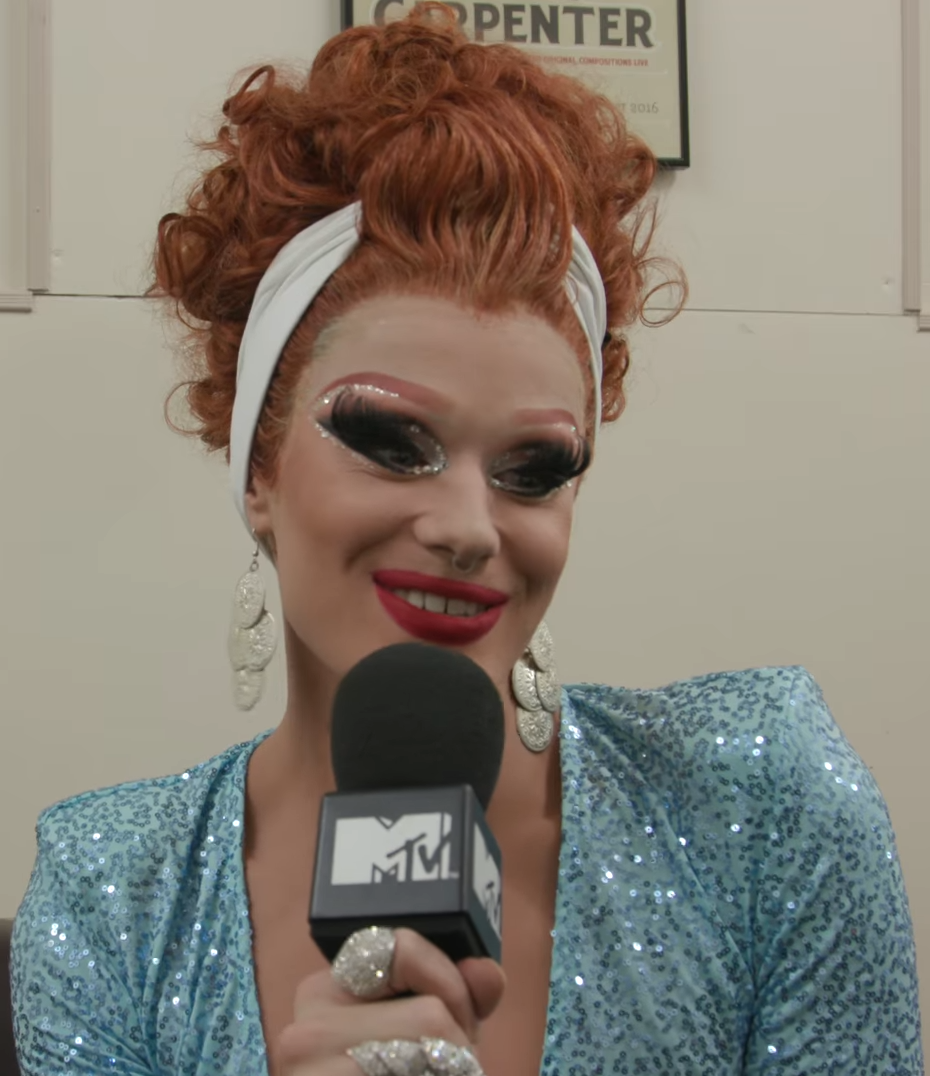 Ivy Winters being interviewed for MTV International in 2018.